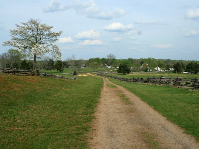 Old Lynchberg road, the site of last attack at Appomattox